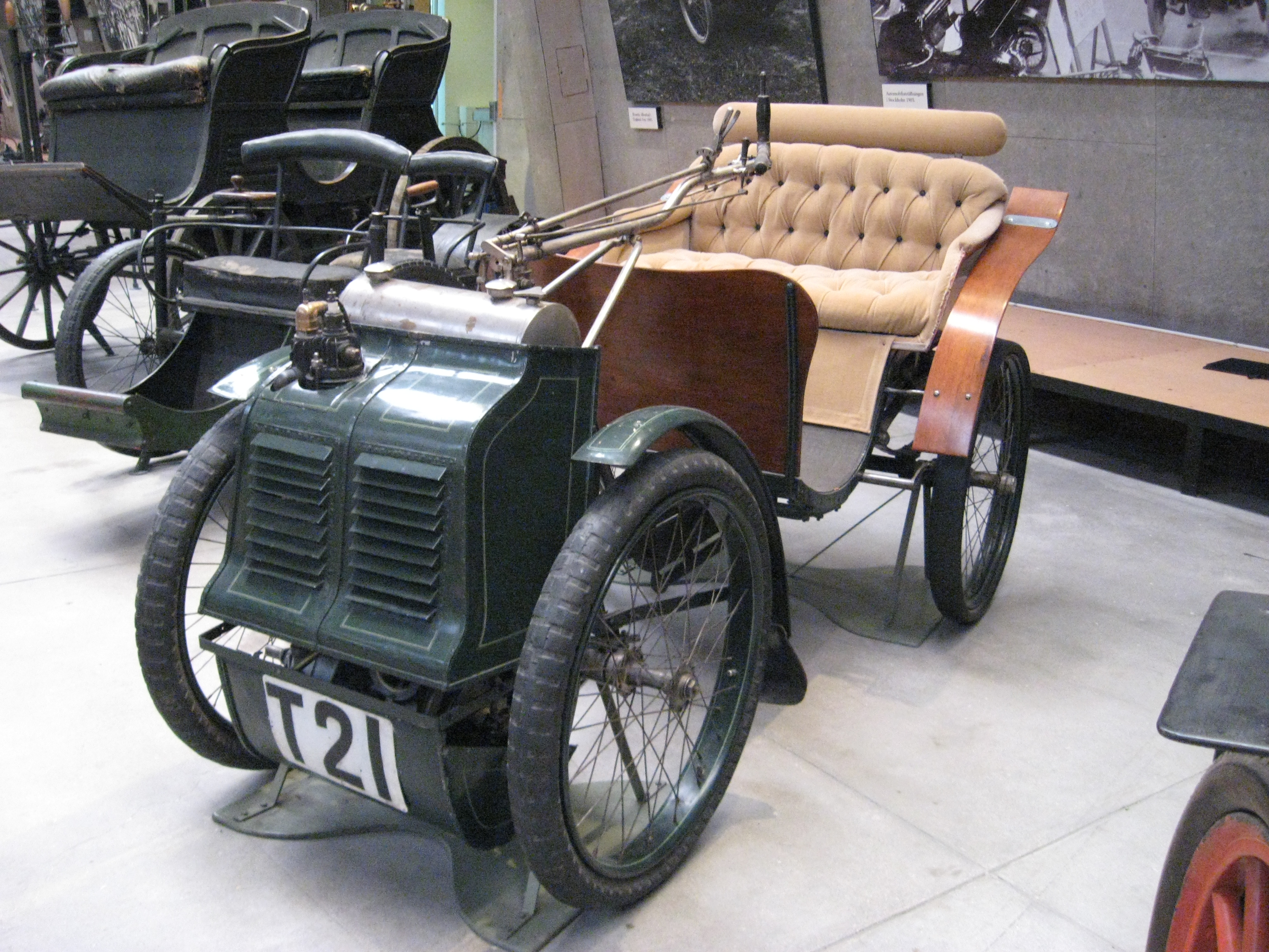 1899-1900 Victoria Combination. Originally fitted with a single cylinder DeDion engine it was in the 1910s fitted with an extra cylinder on top of the other to increase power. Tekniska Museet: TEKS0030794